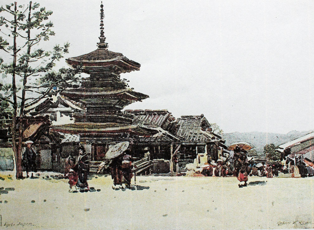 water-colour painting of Yasaka Pagoda, Kyoto 1907